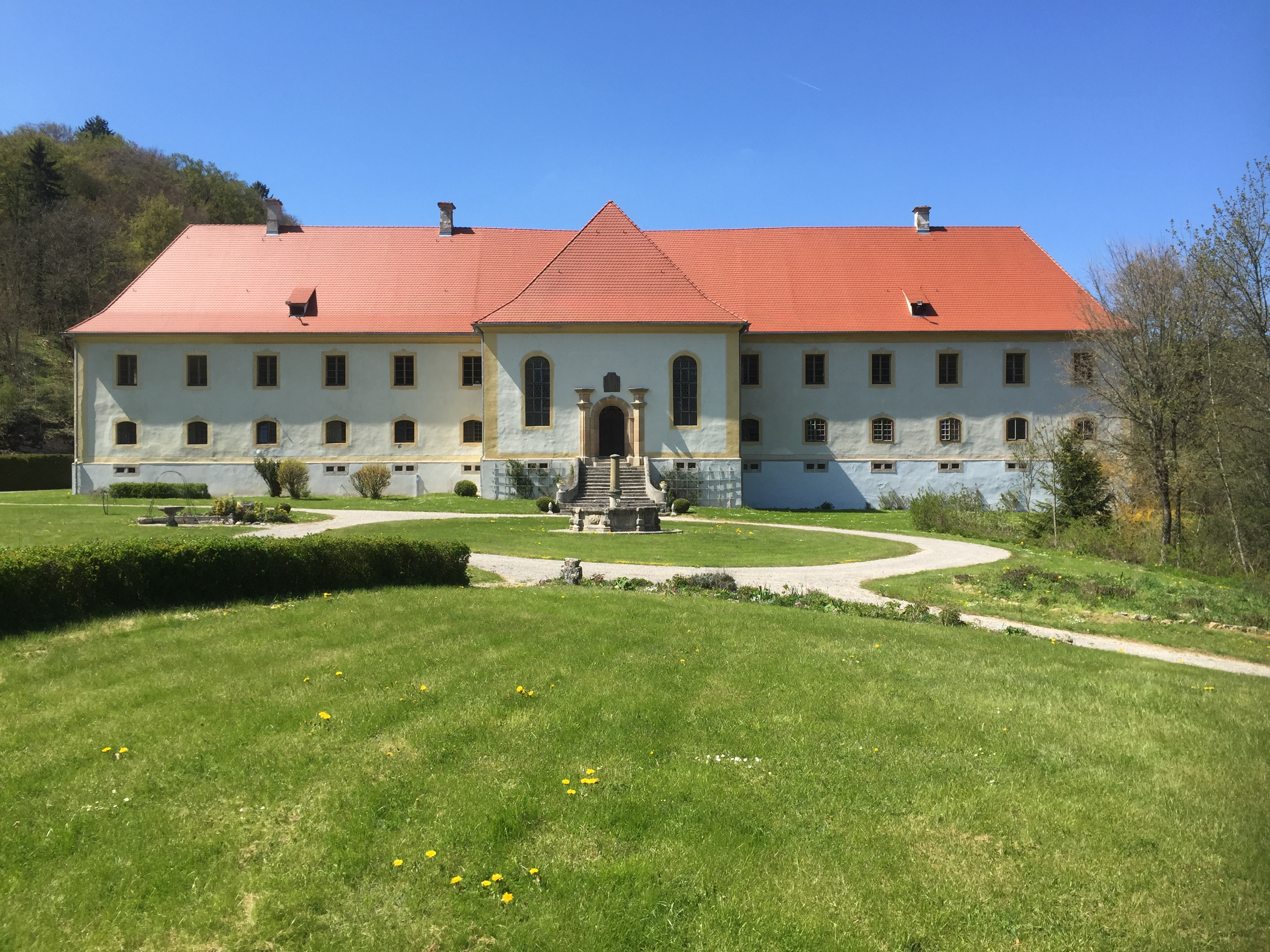 Castle Ehrenfels